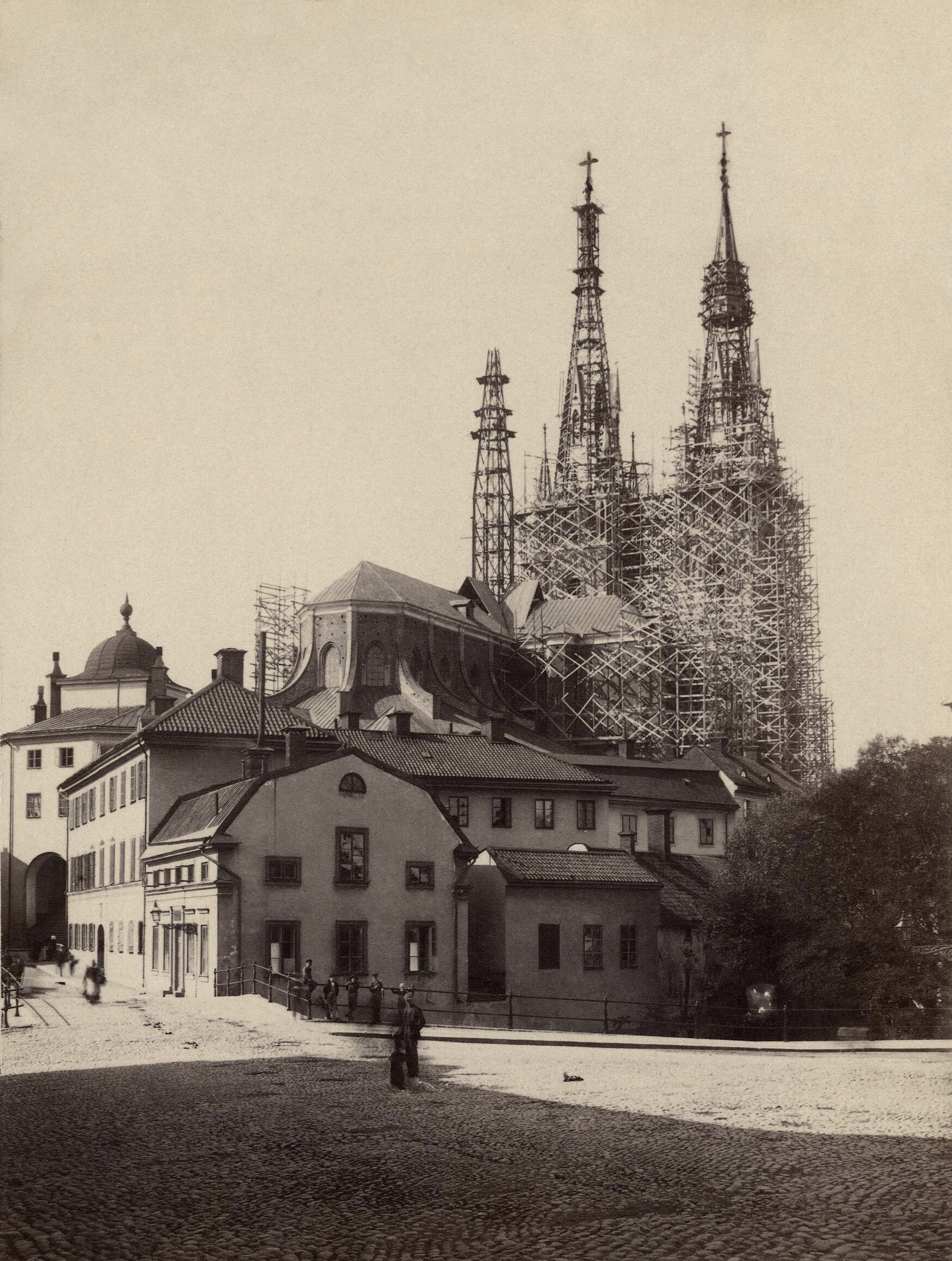 Photograph of Uppsala Cathedral while undergoing repairs in 1889 taken by Emma Schenson, an early female photographer based in Uppsala. The photograph was taken from Gamla torget.